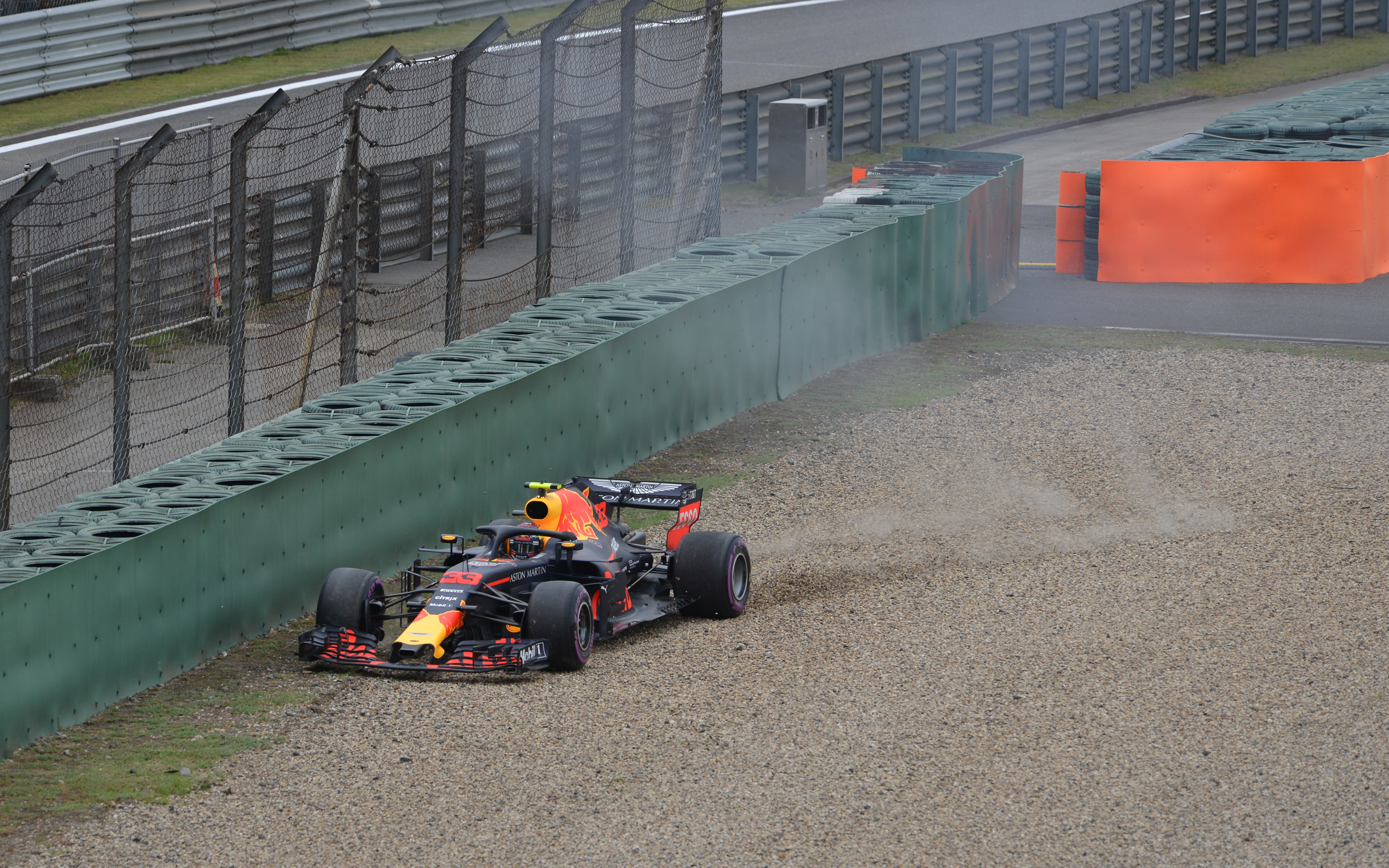 Red Bull Racing TAG Heuer